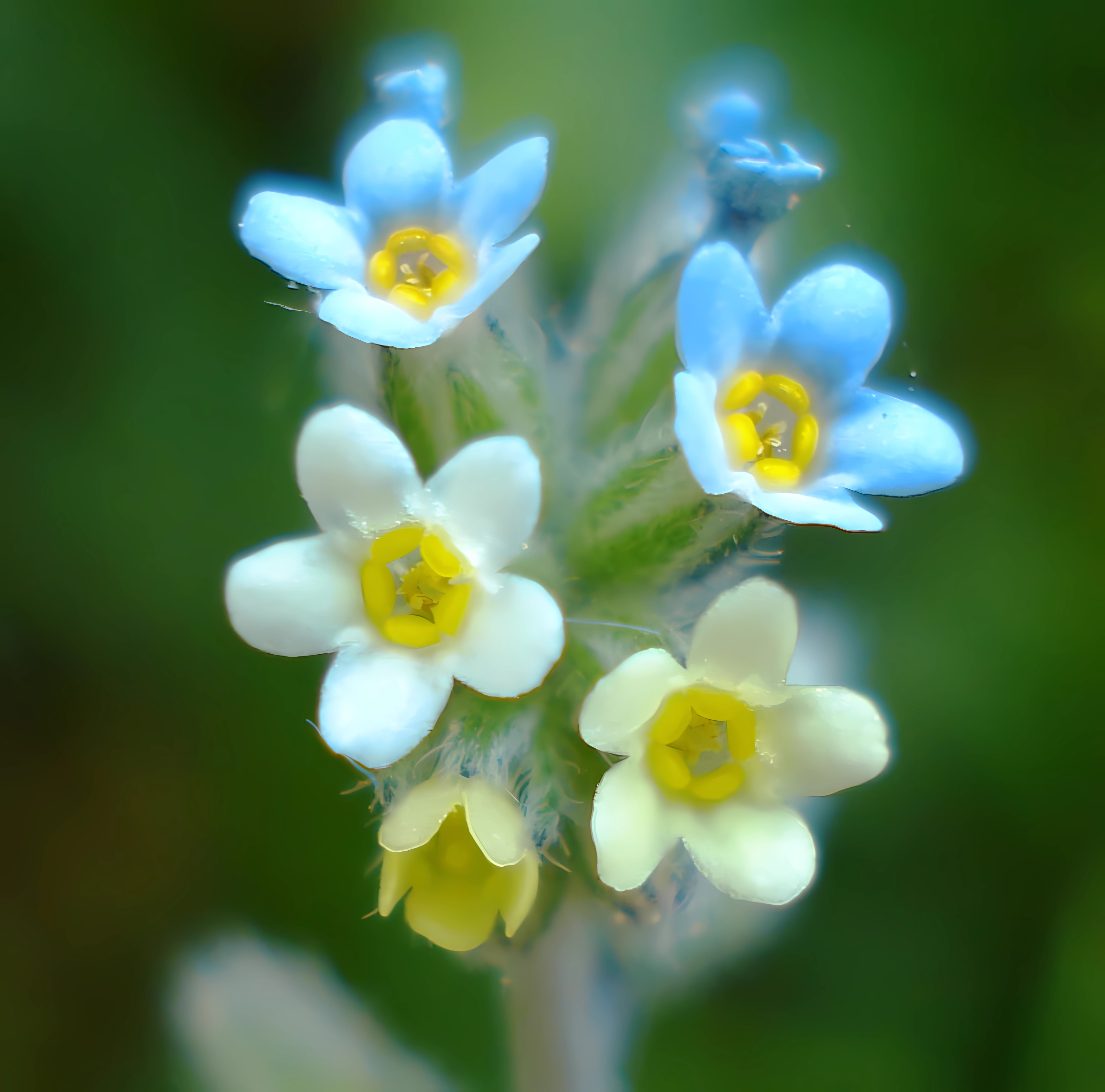 Myosotis discolor (Unterfranken, Germany)